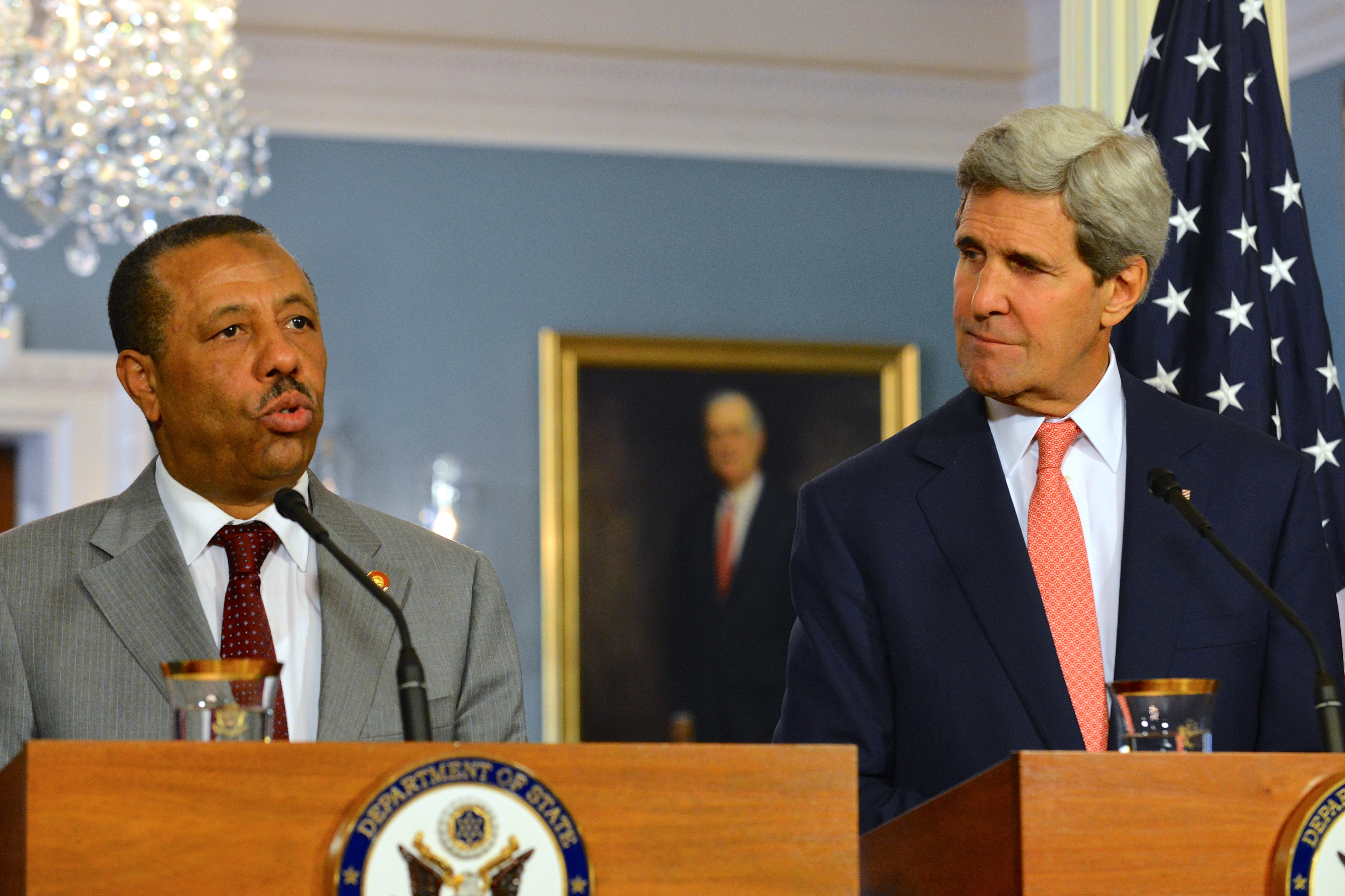 U.S. Secretary of State John Kerry and Libyan Prime Minister Abdullah al-Thinni address reporters before their bilateral meeting at the U.S. Department of State in Washington, D.C., on August 4, 2014. Leaders from across the African continent are in the nation's capital for a three-day U.S.-Africa Leaders Summit, the largest event any U.S. President has held with African heads of state and government. [State Department photo/ Public Domain]